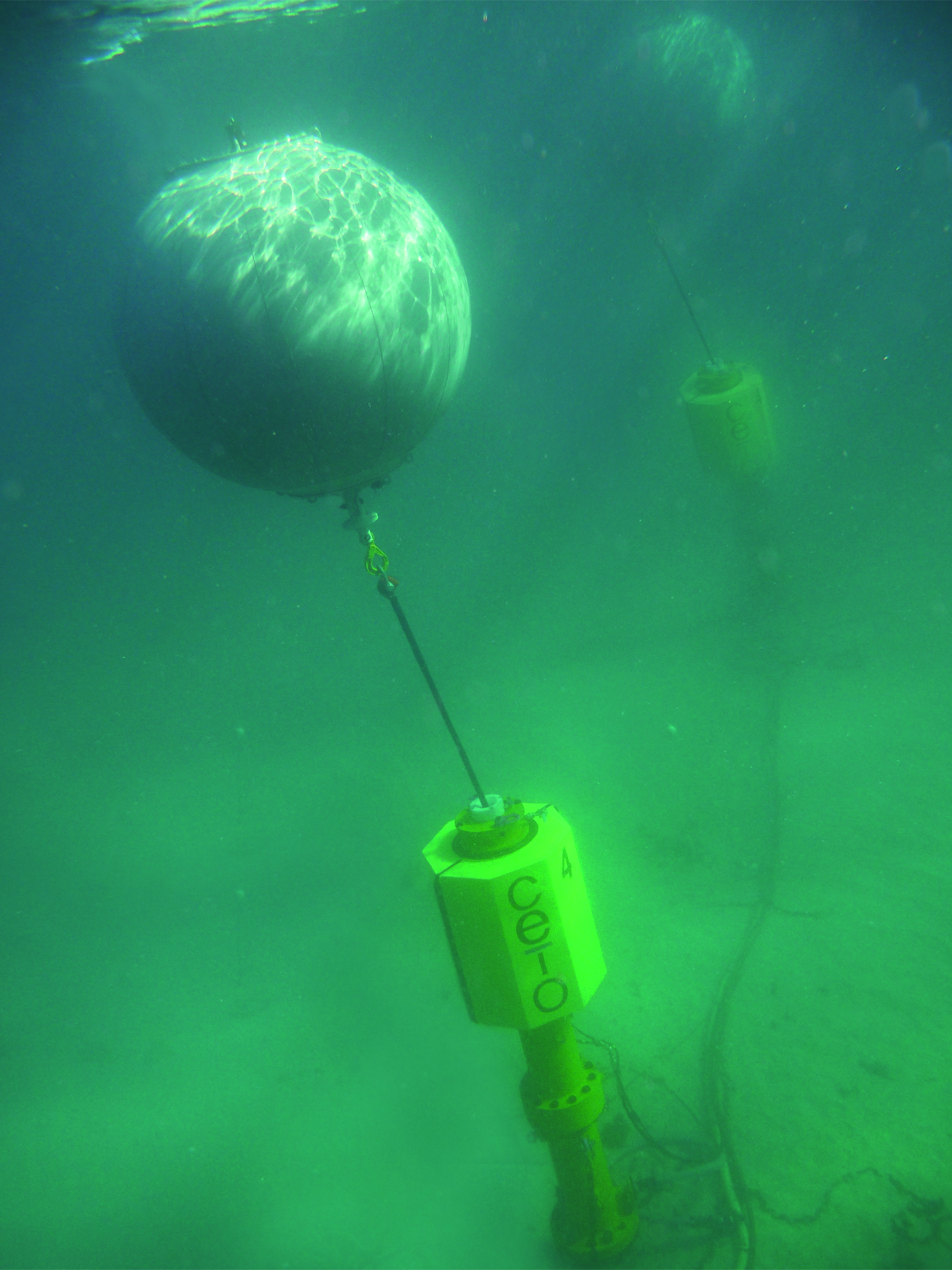 CETO 2 Units in Operation, Fremantle Western Australia.